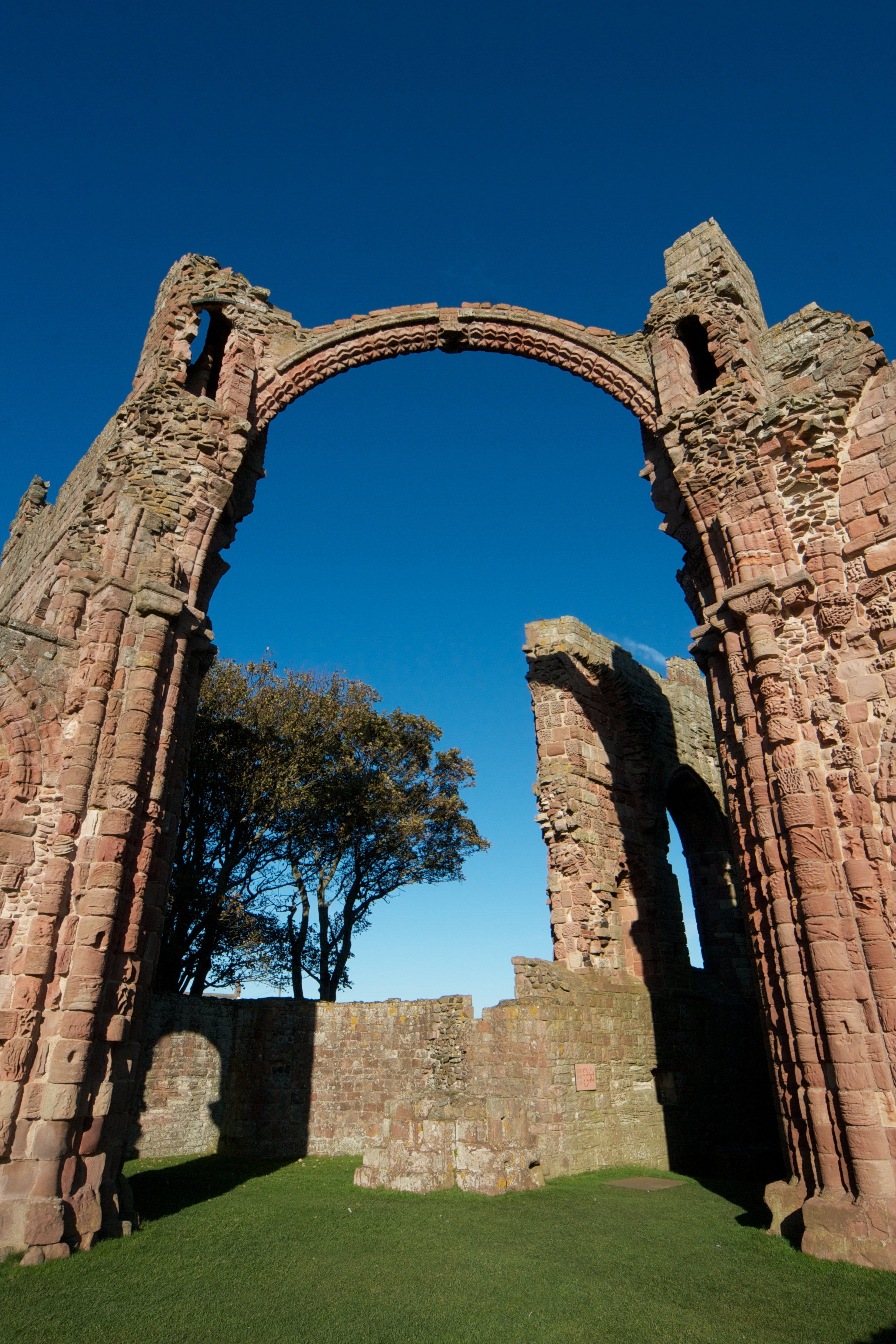 Lindisfarne Priory